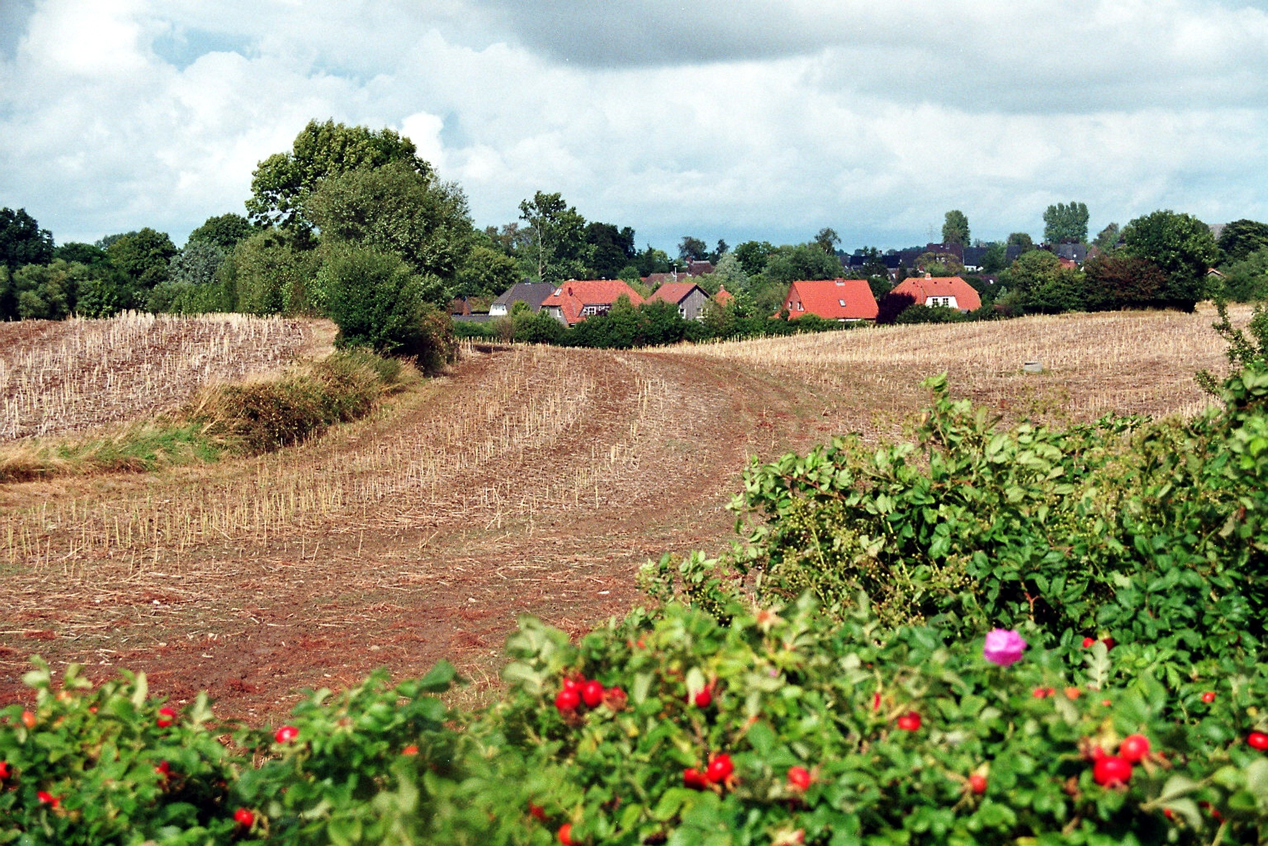 Prasdorf, view to the village